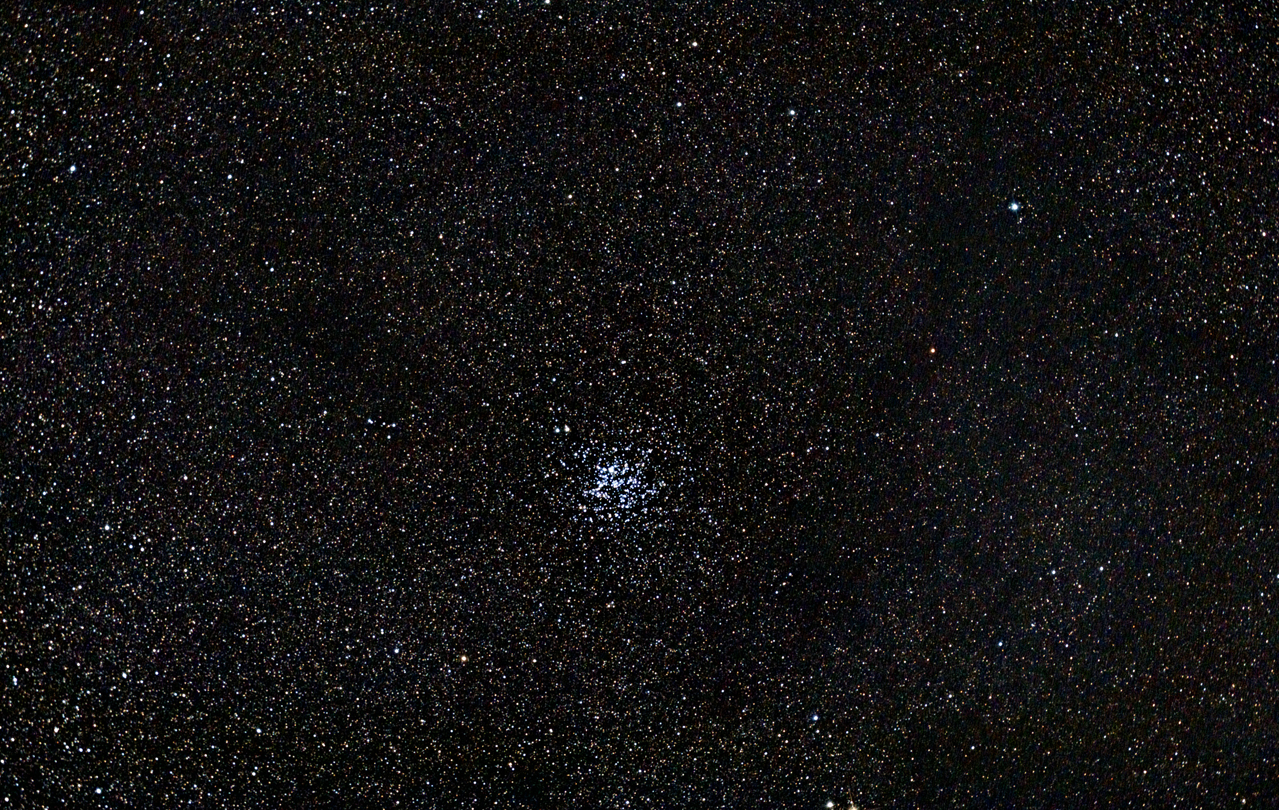 The Wild Duck Cluster photographed on amateur astrophotography equipment.